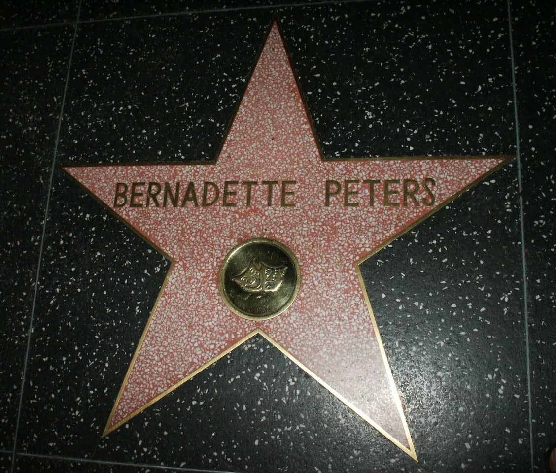 Hollywood Star on Hollywood Walk of Fame - Beloved and lovely - Broadway musical and movie actress